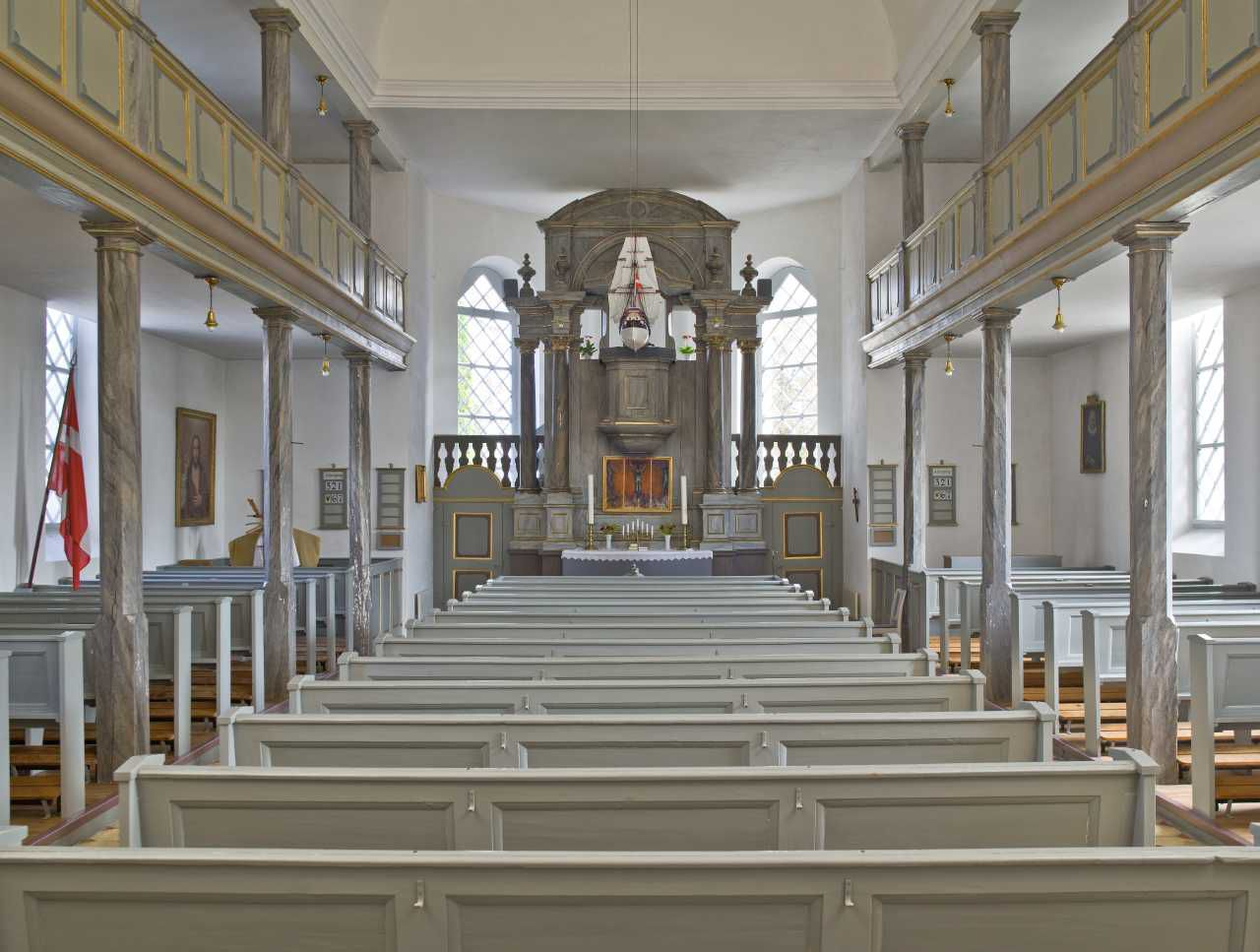 Interior of Damsholte Kirke on Møn, Denmark